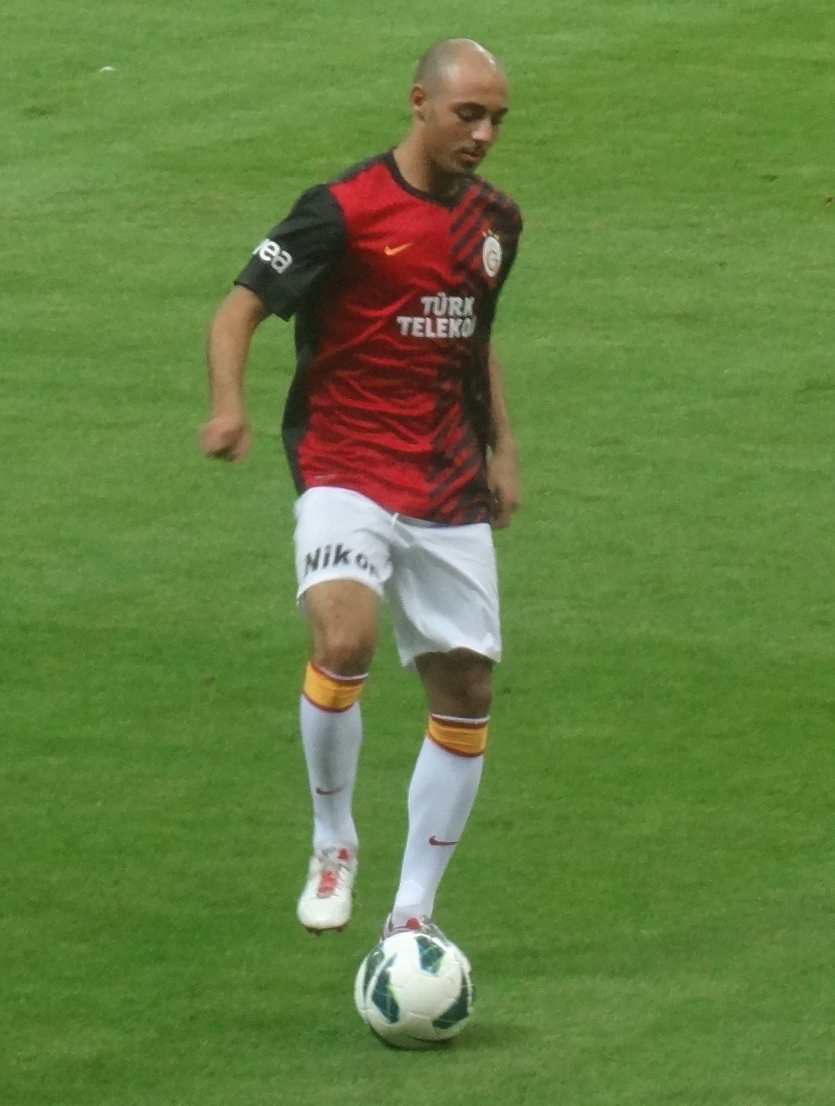 Amrabat is training before Fiorentina match